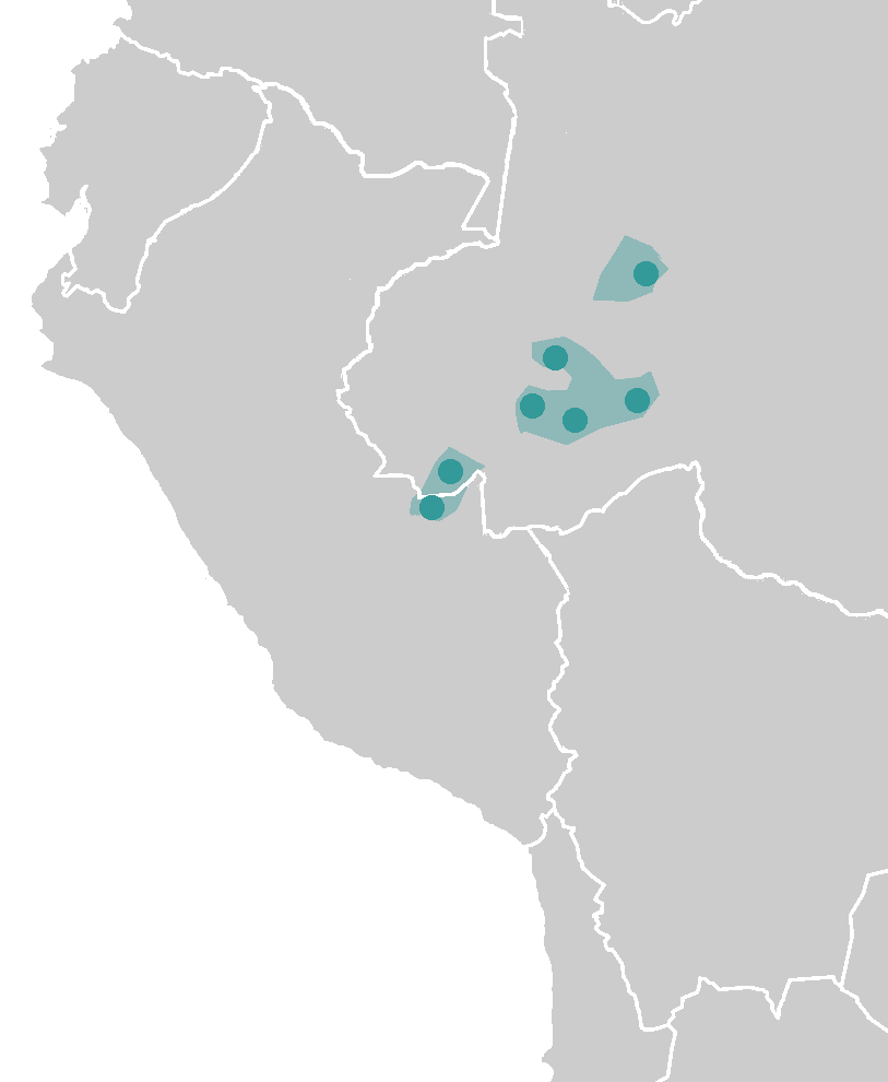 Arawan Languages. Documented locations languages at present are signaled by spots, and approximate early probable areas are shadowed. Based on data of R. M. Dixon "Arawá" in The Amazonian Languages, R. M. Dixon & Alexandra Y. Aikhenvald (eds.), Cambridge: Cambridge University Press, 1999. p. 292-306.